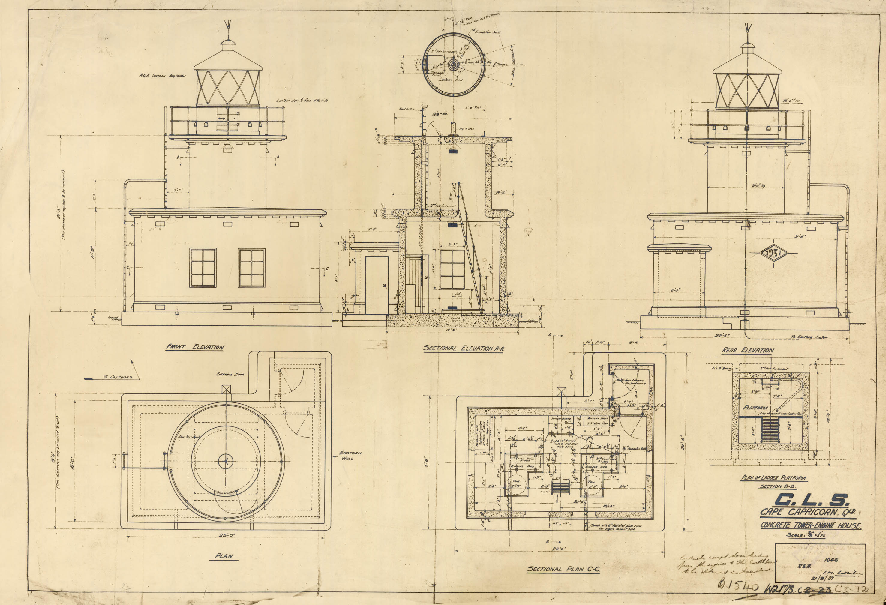 Cape Capricorn - Concrete Tower-Engine House. Though the source states "circa 1920", the drawing clearly shows 1937 in two different locations.